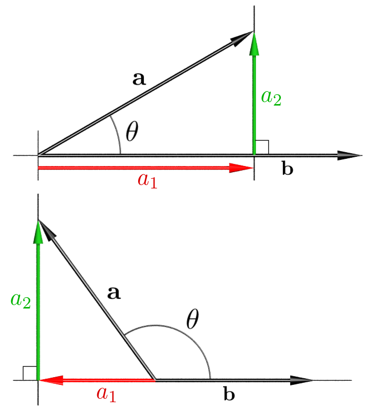 Vector projection